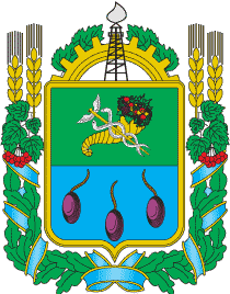 Coats of arms of Valkivskyj raions